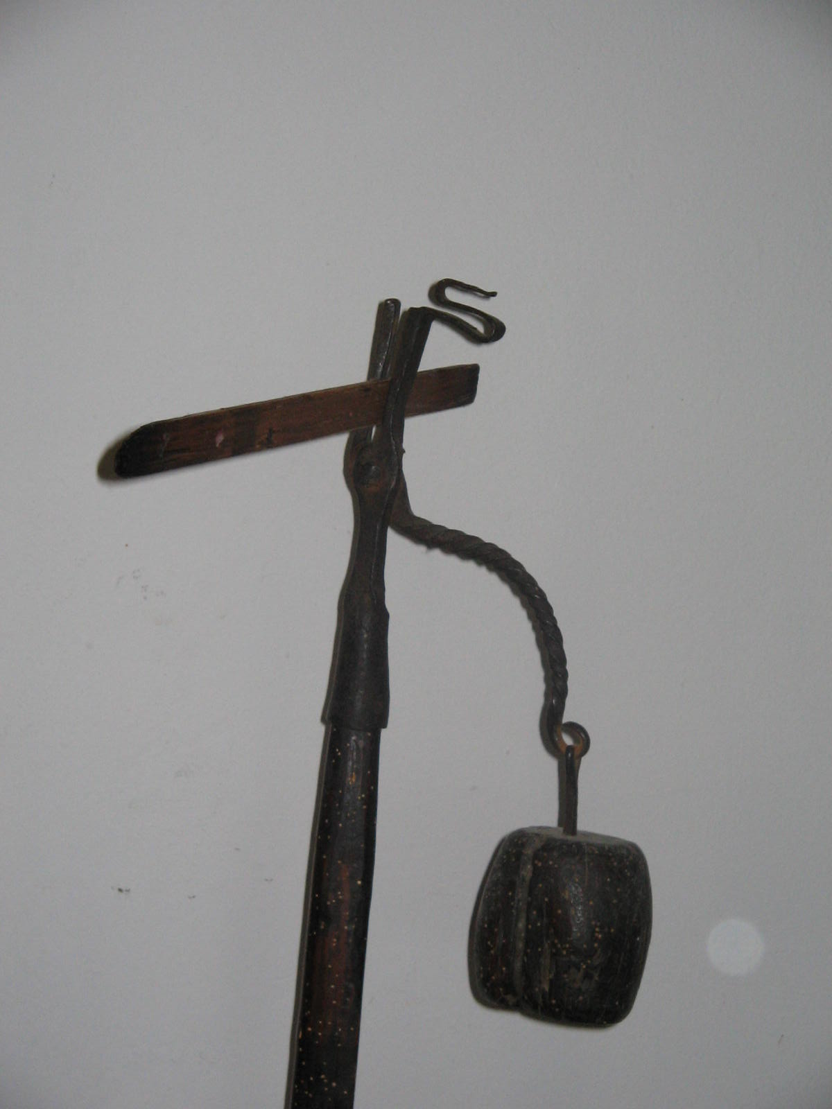 Fatwood holder in the house where the slovenian poet Anton Aškerc was born in Senožete, Slovenia Quelle: eigene Aufnahme 16. Oct. 2005 Fotograf: Janez Novak, Ljubljana, Slovenija